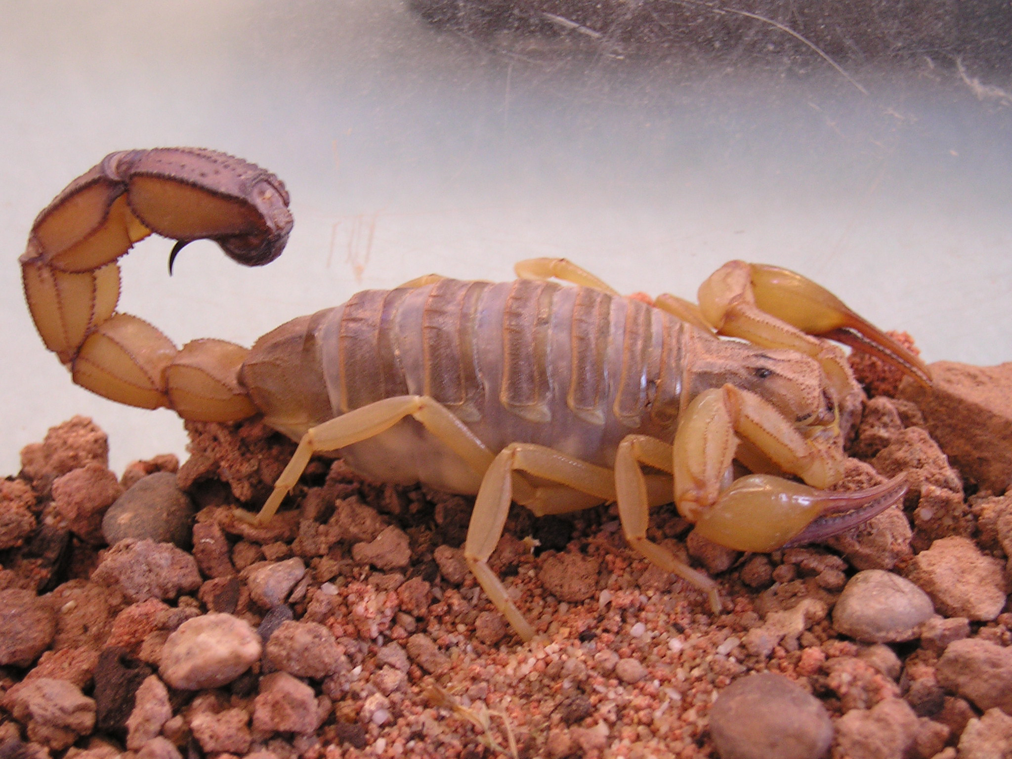 androctonus australis - pregnant female